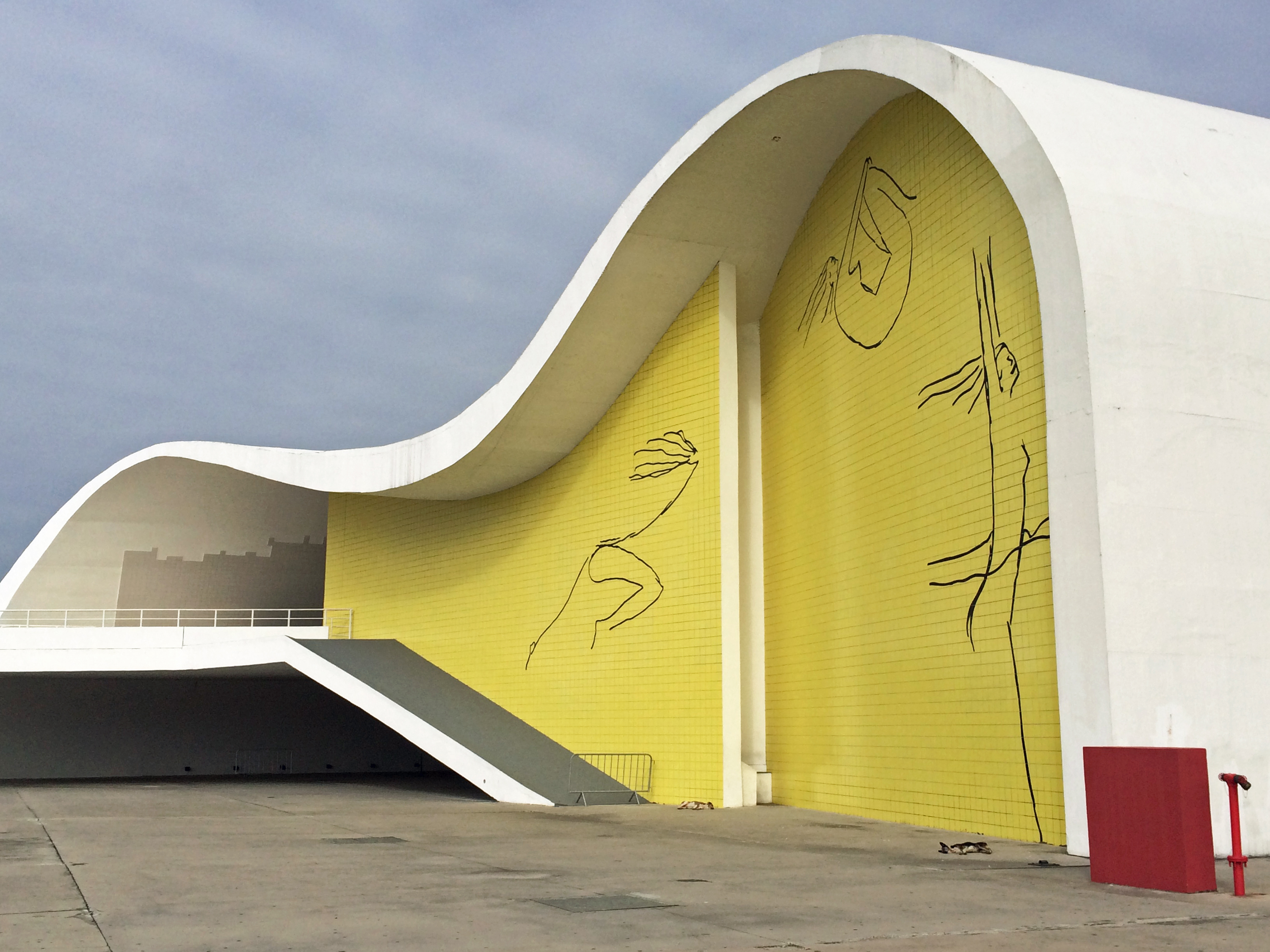 Teatro Popular de Niterói, Caminho Niemeyer, Rio de Janeiro state, Brazil